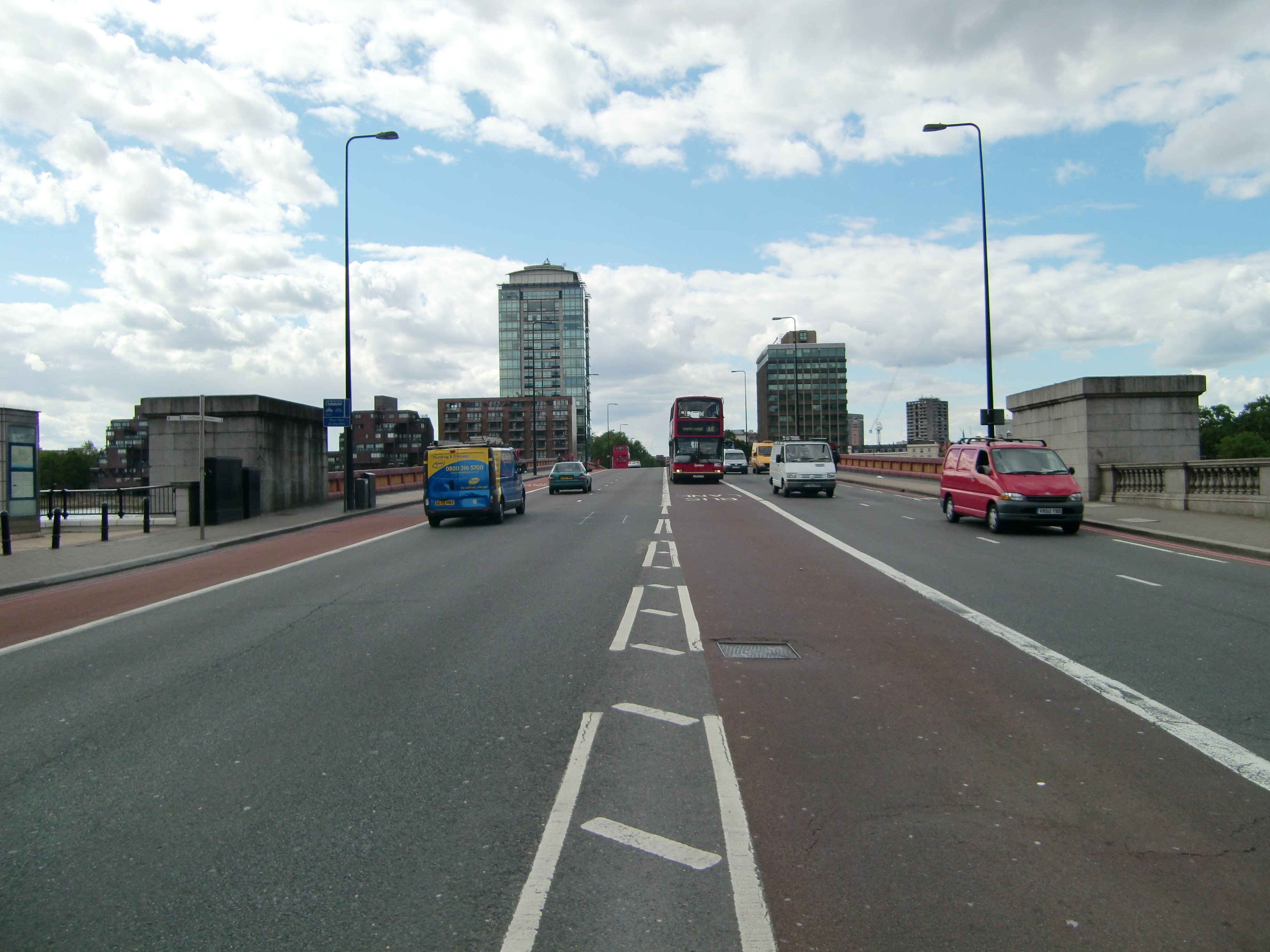 View along Vauxhall bridge, London. Taken from South Bank end in the afternoon. Bus lanes and cycle lane are surfaced in red. Note the South bound bus lane is in the middle of the road.